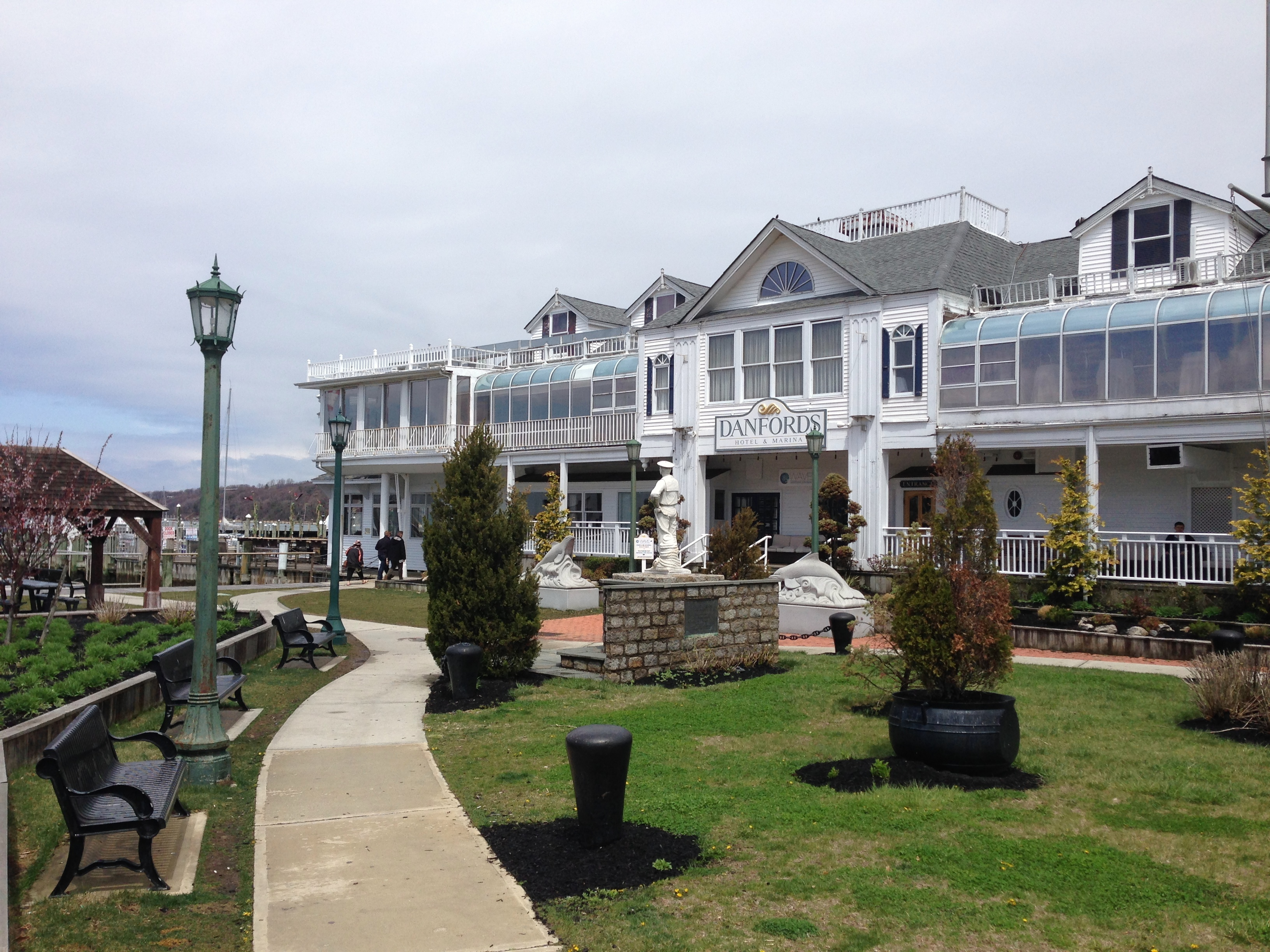 Danfords Hotel & Marina in Port Jefferson, New York